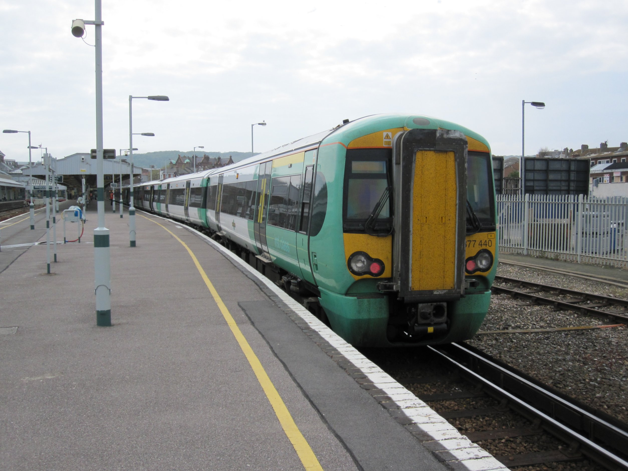 19 May 2010 sees 377.440 closest to the camera on 1F43 15:58 Eastbourne to London Victoria. The train will join up at Haywards heath on to the back of service from Littlehampton.